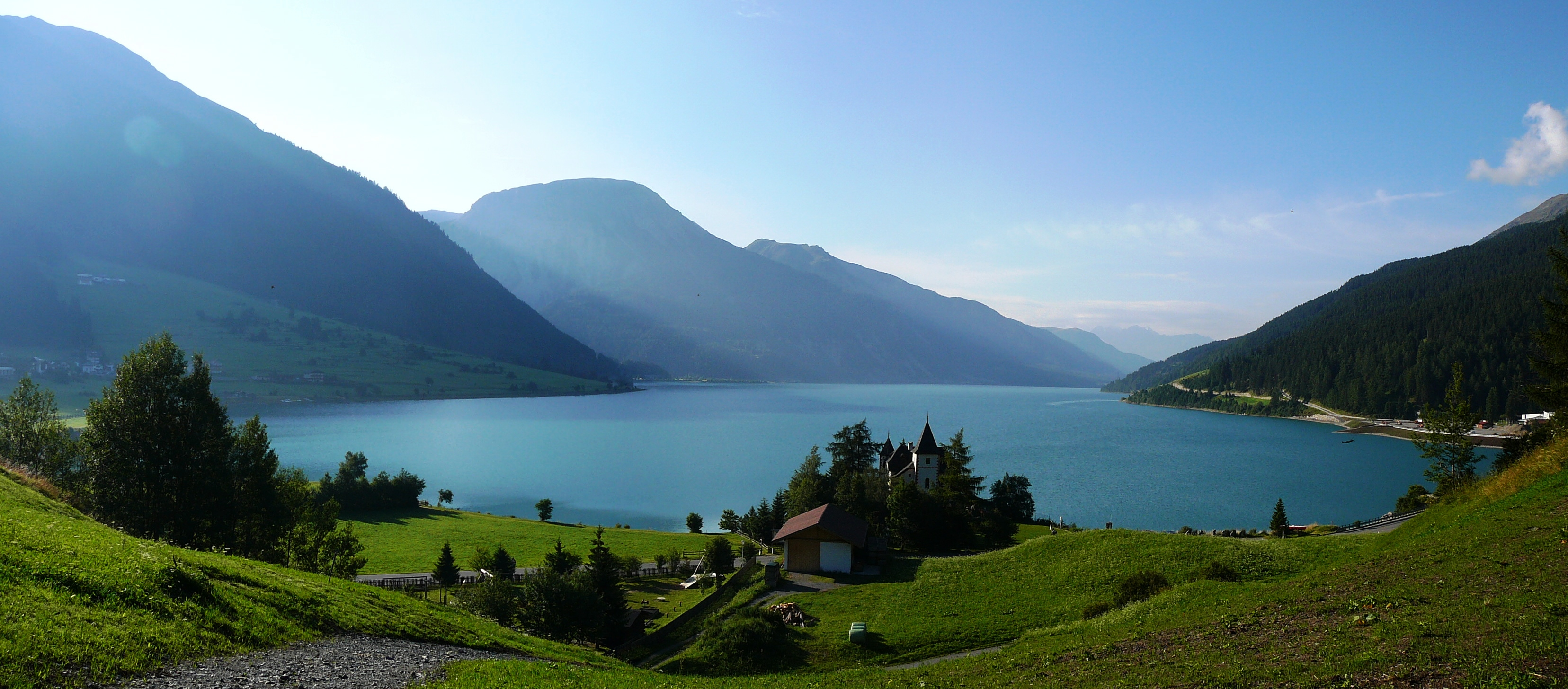 Reschensee, South Tyrol